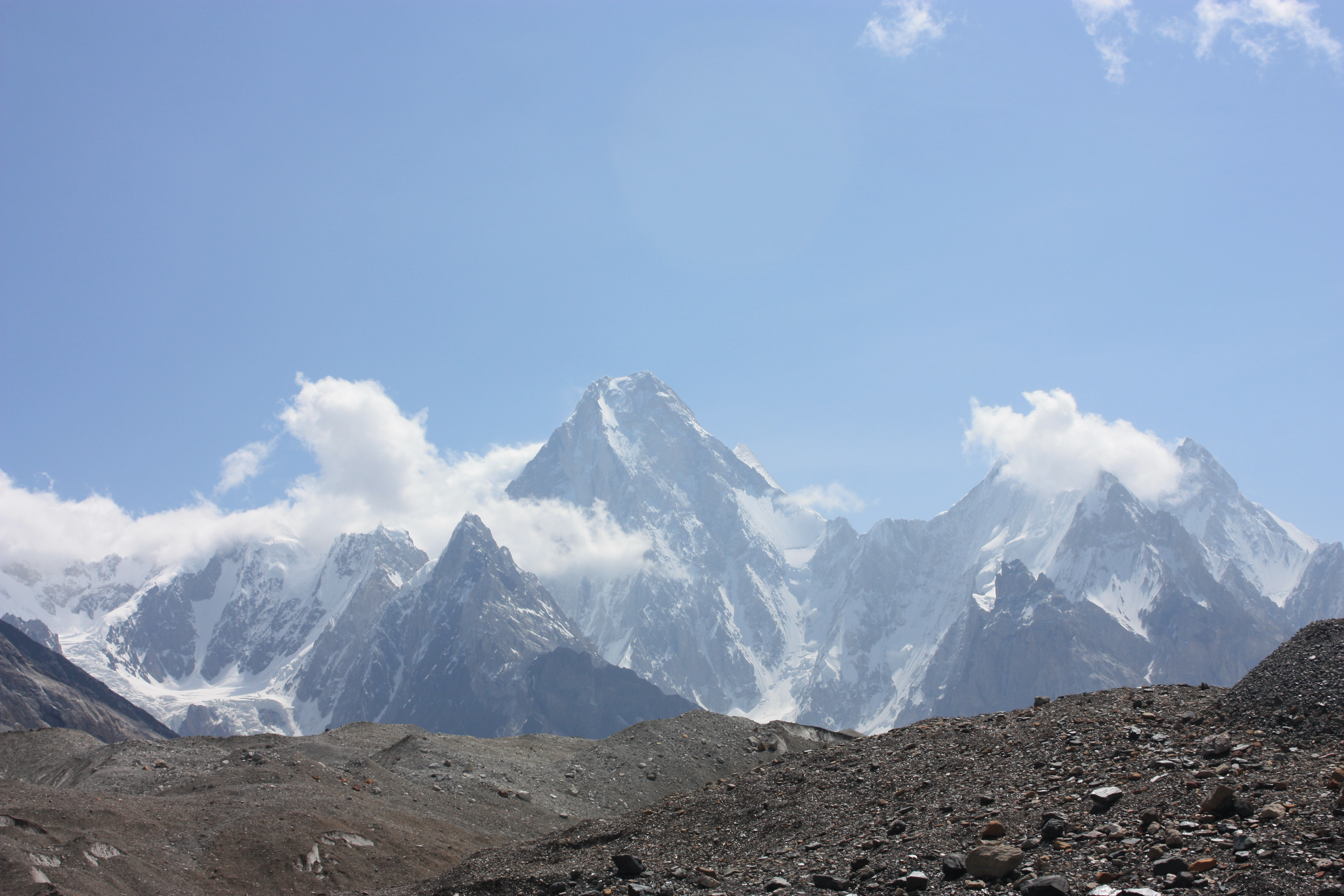 Gasherbrum IV (centre) and Gasherbrum V (right)